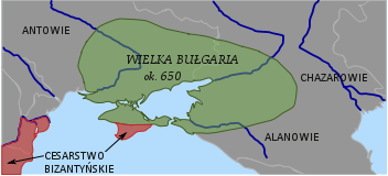 Old Great Bulgaria, c. 650